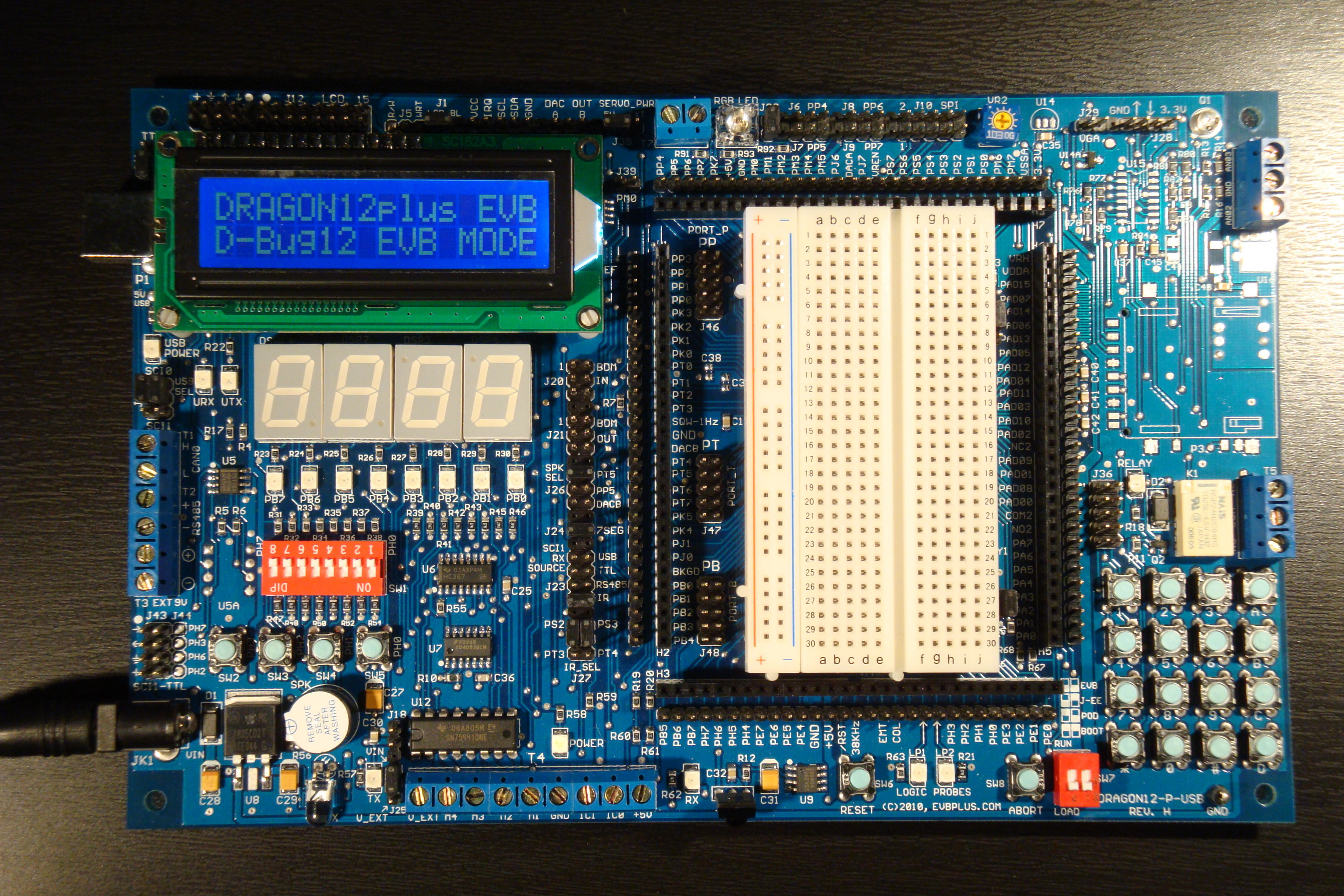 Dragon12-P microcontroller evaluation board running on 68HC12 and HD44780 display controller.